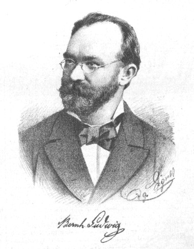 Portrait of Bernhard Hieronymus Ludwig (1834-1897), Austrian entrepreneur, producer of furniture.